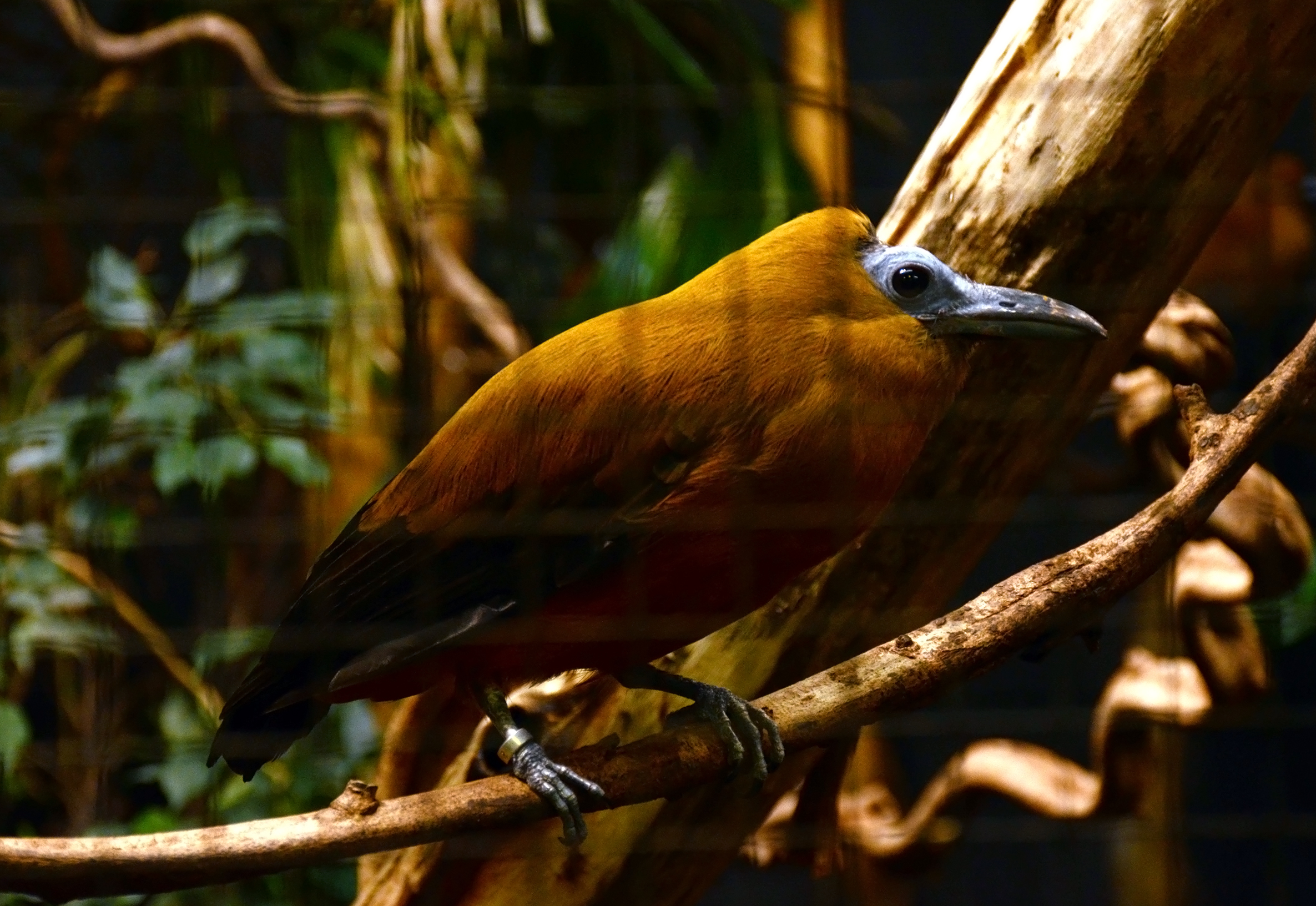 Capuchinbird ( Perissocephalus tricolor ) in the Parc des Oiseaux, in Villars-les-Dombes.